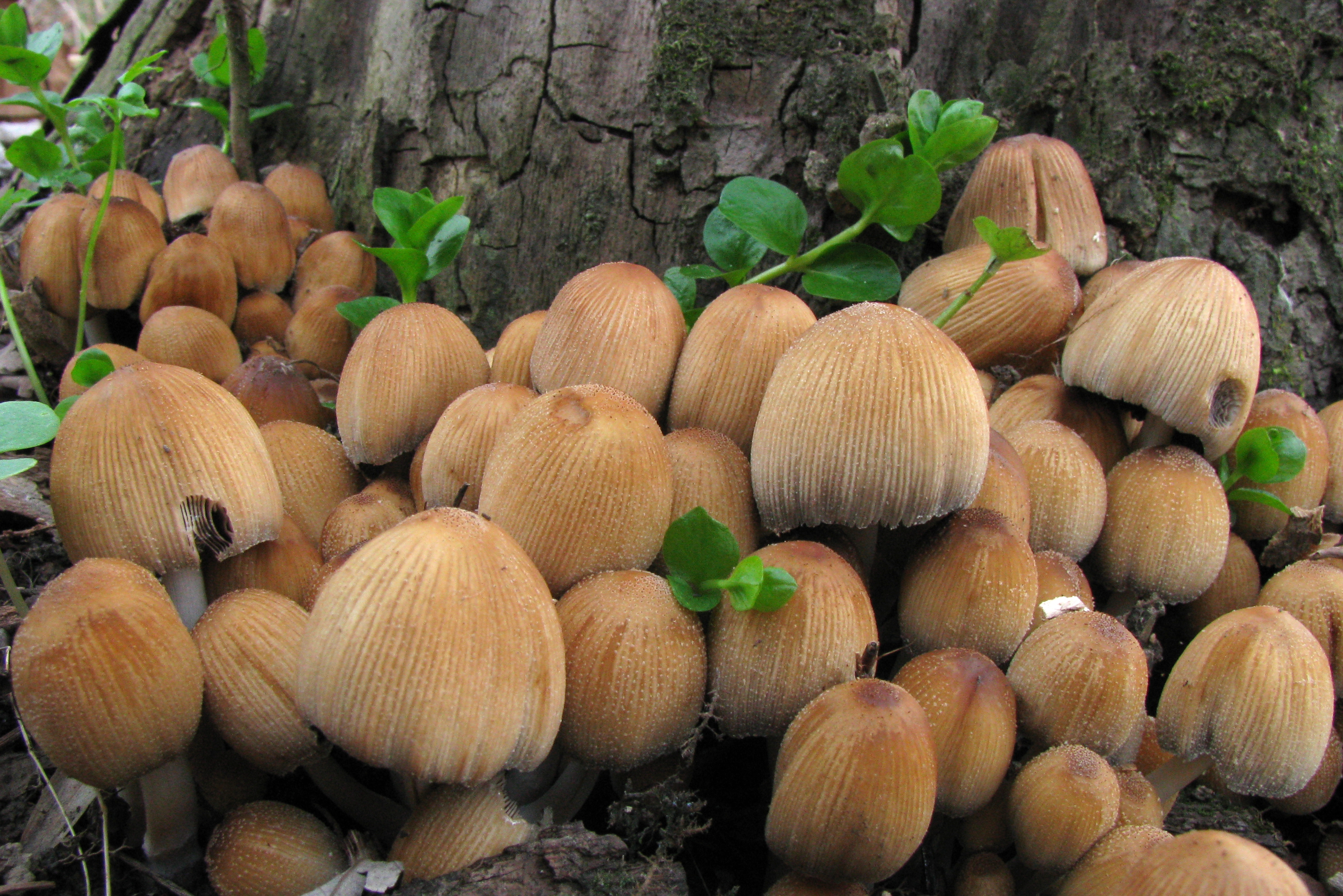 The mushroom Coprinellus micaceus (Bull.) Vilgalys, Hopple & Jacq. Johnson. Photographed in Kinderhook Trail, Wayne National Forest, Ohio, USA.